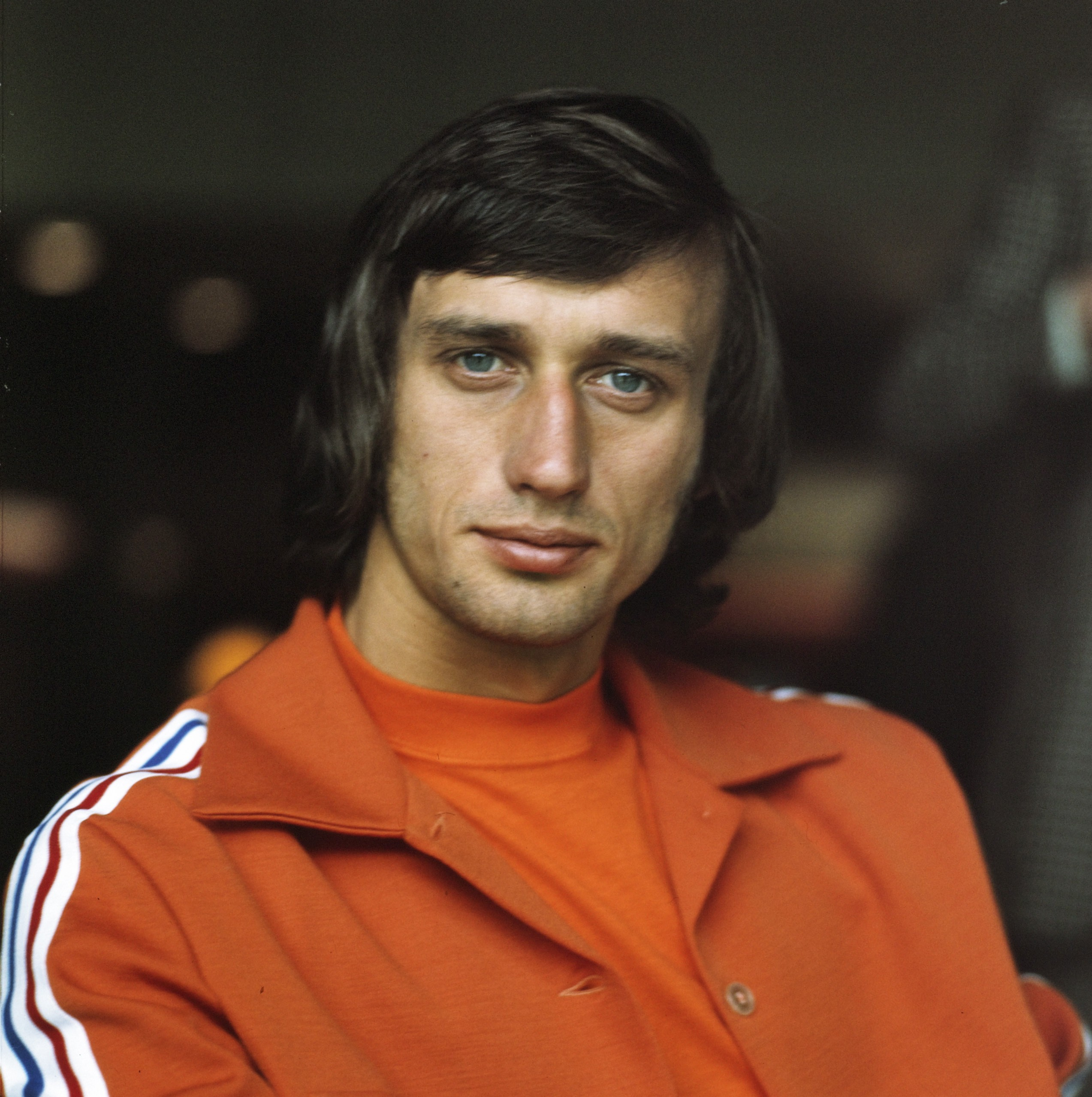 Rob Rensenbrink as player of the Netherlands national football team.